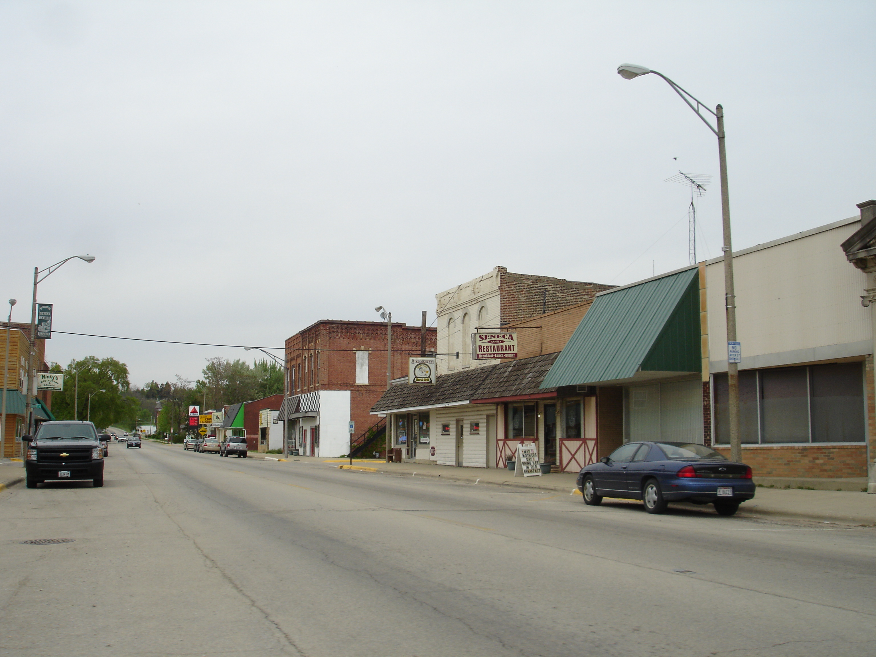 Buildings in the main business district of Seneca, Illinois, USA